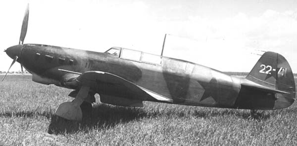 Yakovlev Yak-7B with M-105PF engine